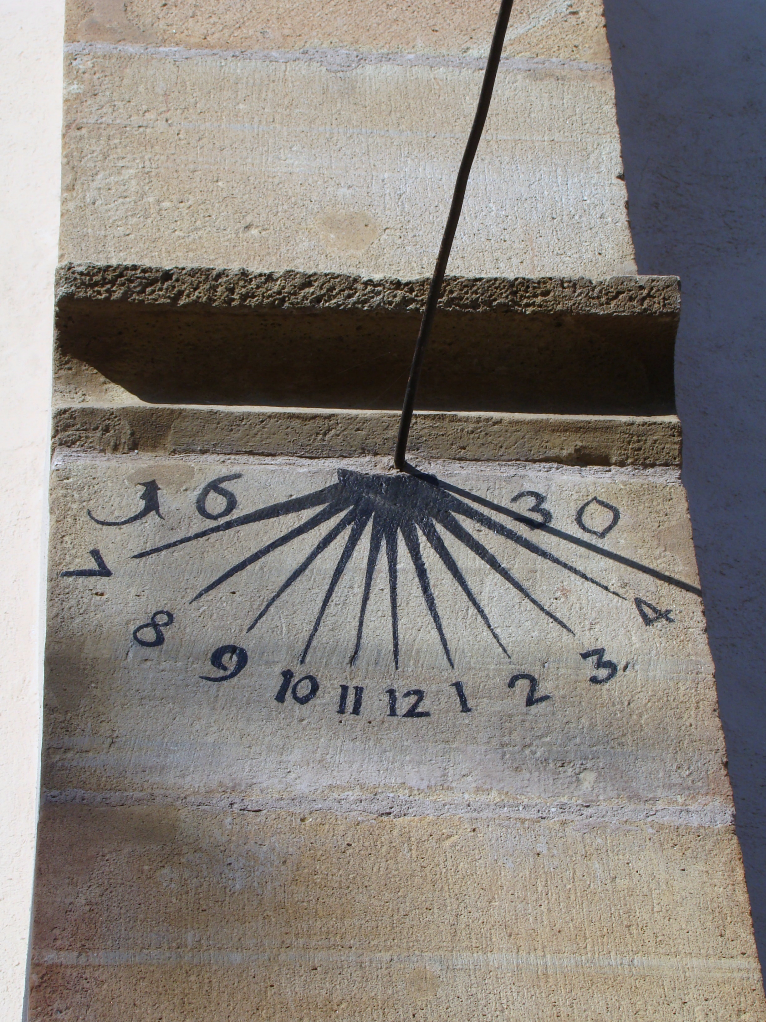 Lutheran church in Reghin, Mureş county, Romania